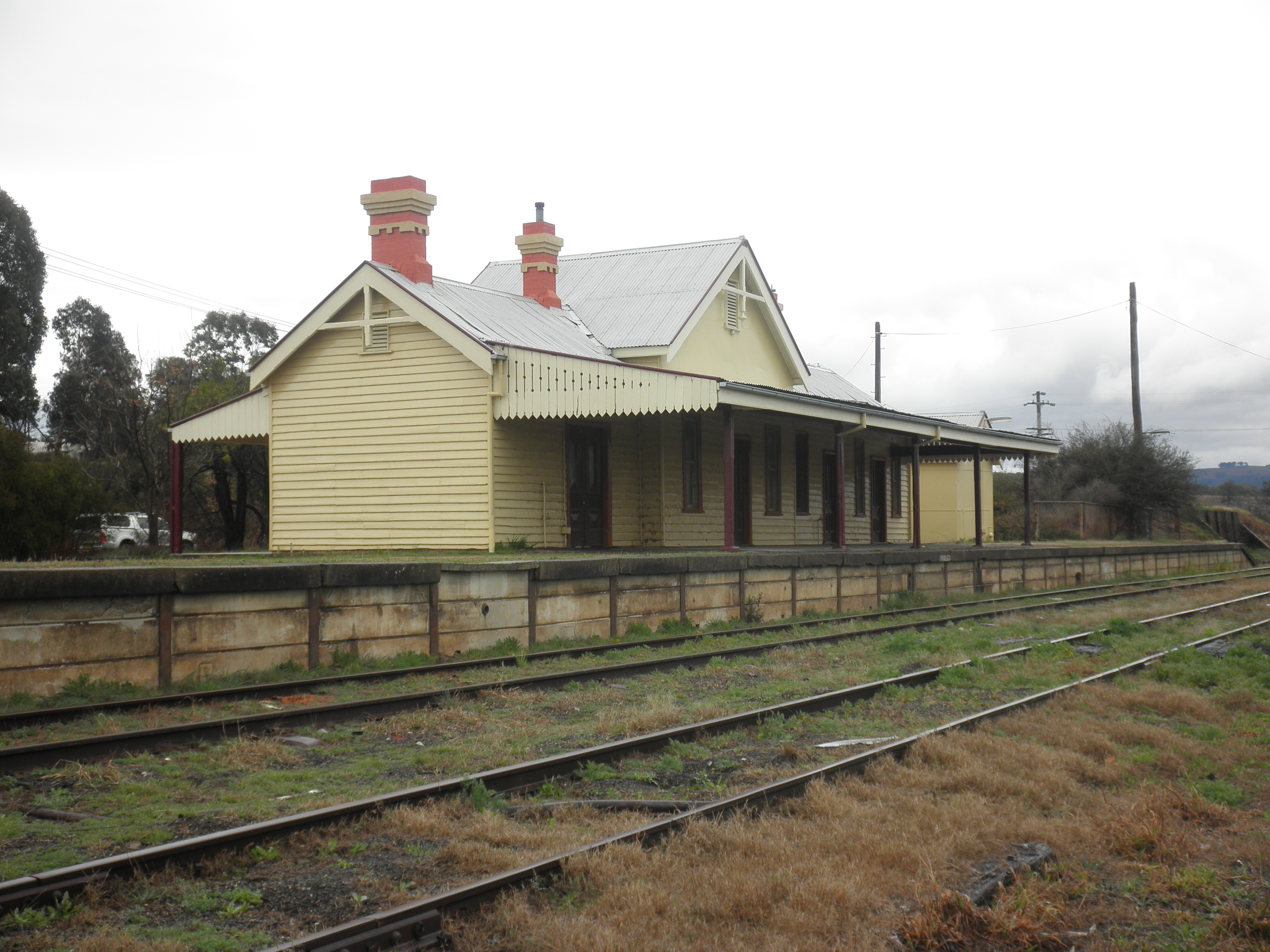 Rylstone Railway Station, NSW, Australia. Line: Gwabegar Line Location: (149.9751°, -32.7957°) [exact] GDA94 Distance: 257.210 km from Sydney Opened: 9-Jan-1884 photo taken September 2011